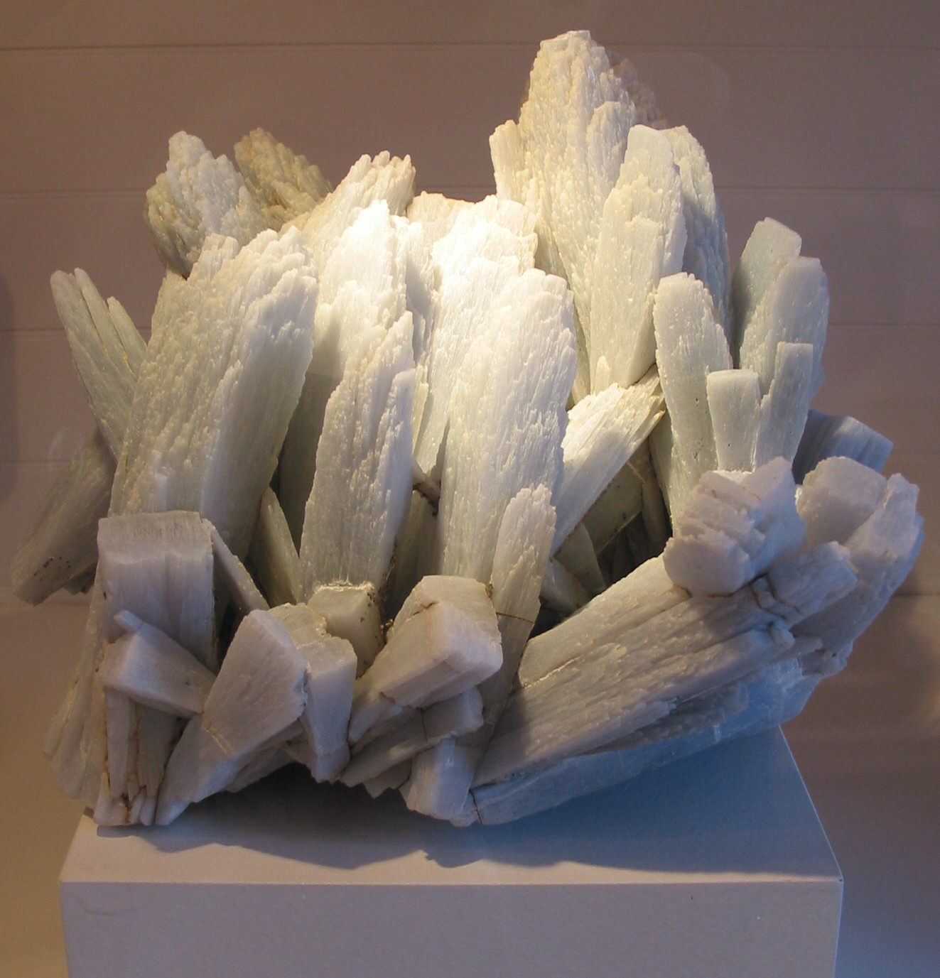 Anhydrite from Naica Mine, Chihuahua, Mexico. Exposed in the Harvard Museum of Natural History